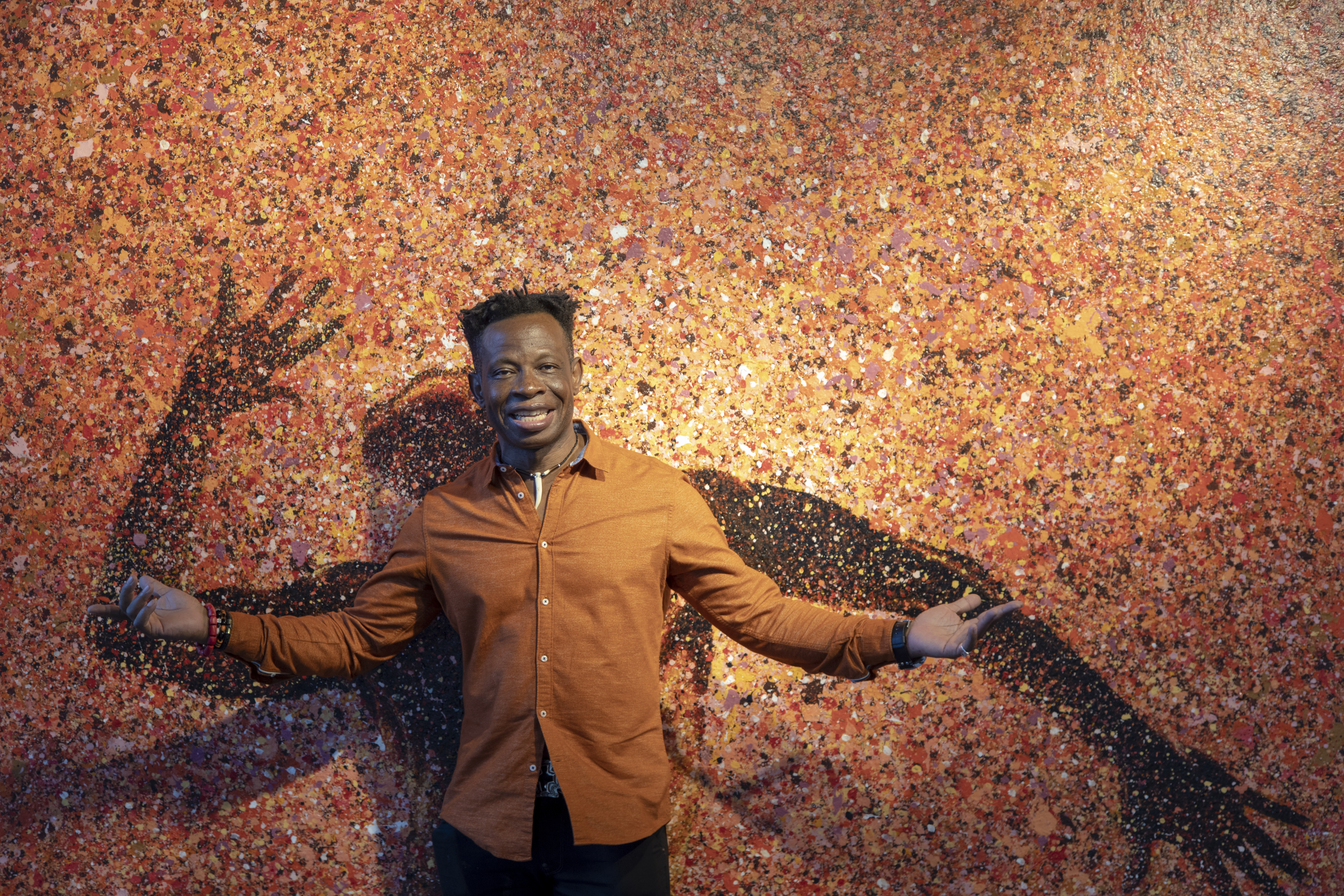 Chidi